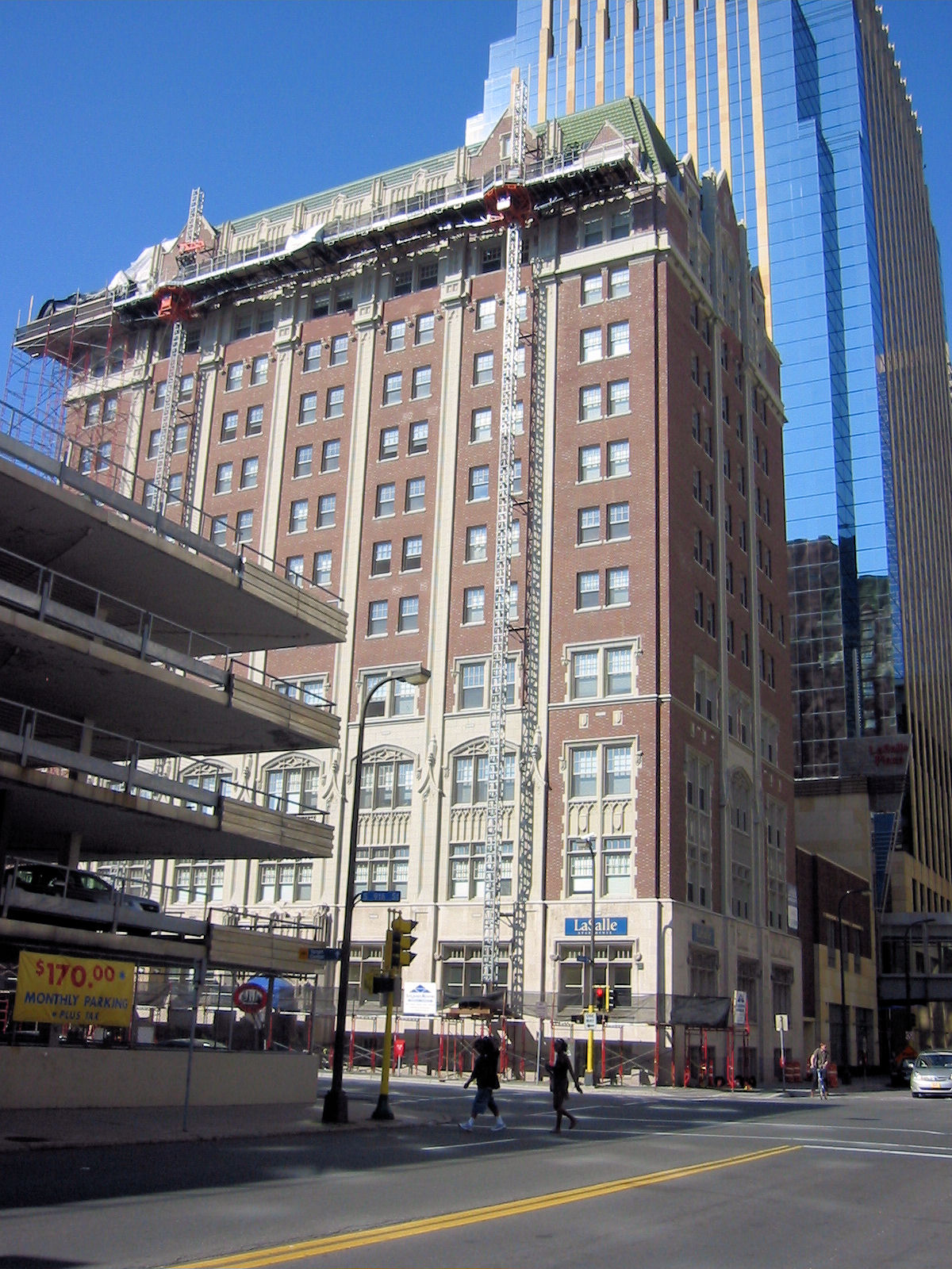 Minneapolis YMCA Central Building in downtown Minneapolis, Minnesota.